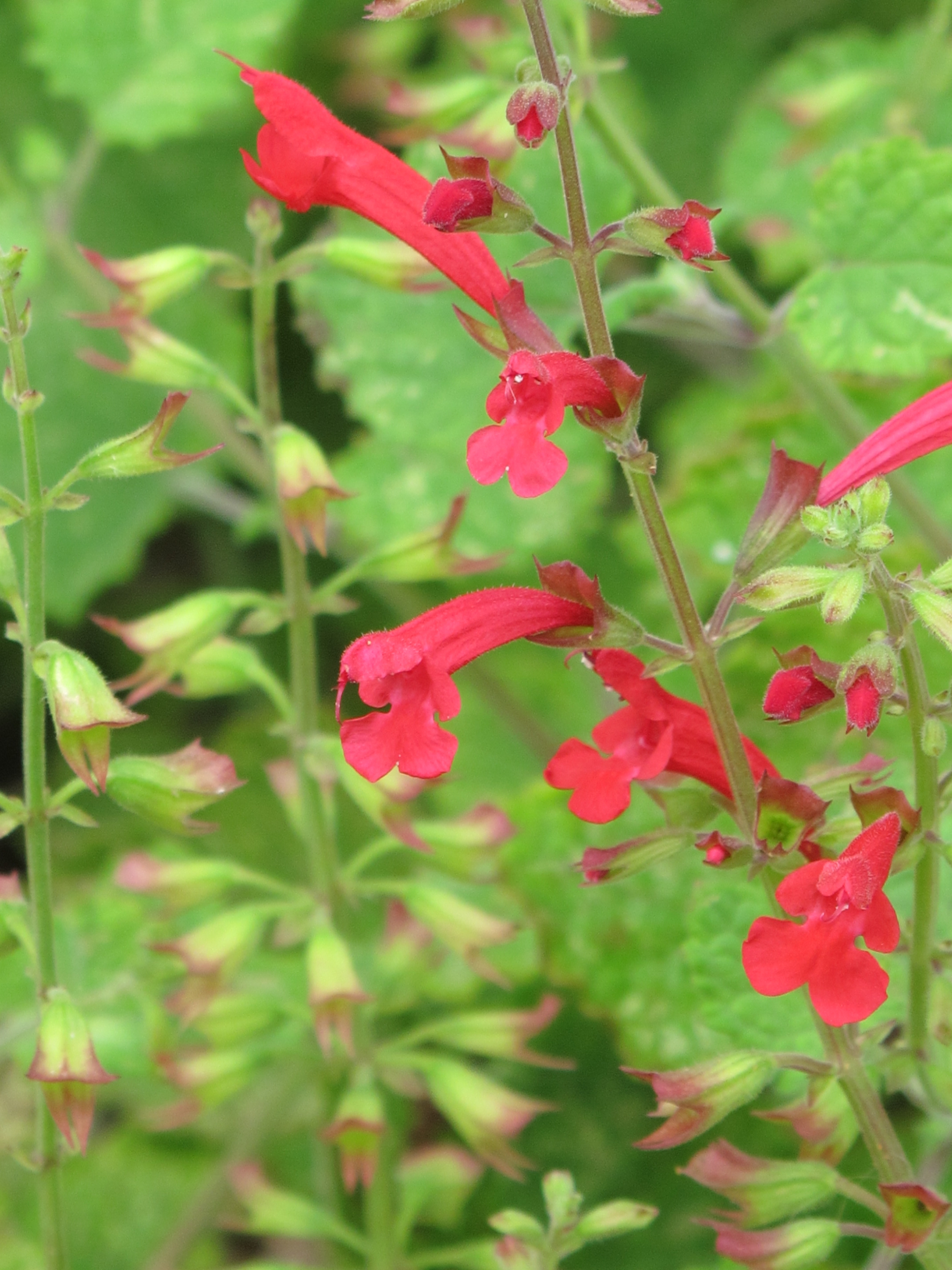 Salvia roemeriana, cultivated, South Miami, Florida, USA.